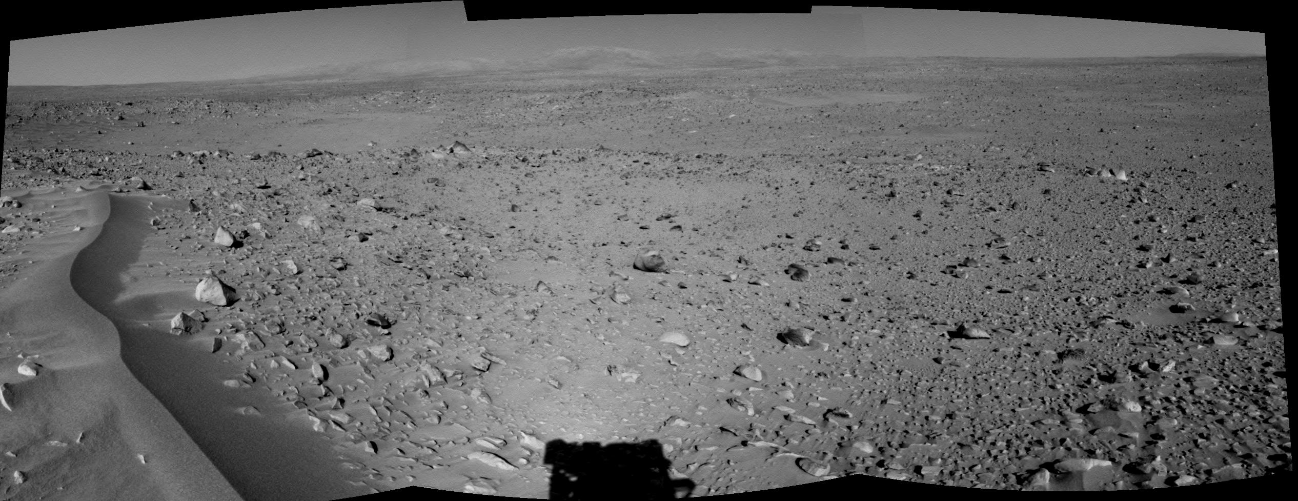 Lahontan crater: mosaic of three images acquired by NASA Mars Exploration Rover Spirit navigation camera